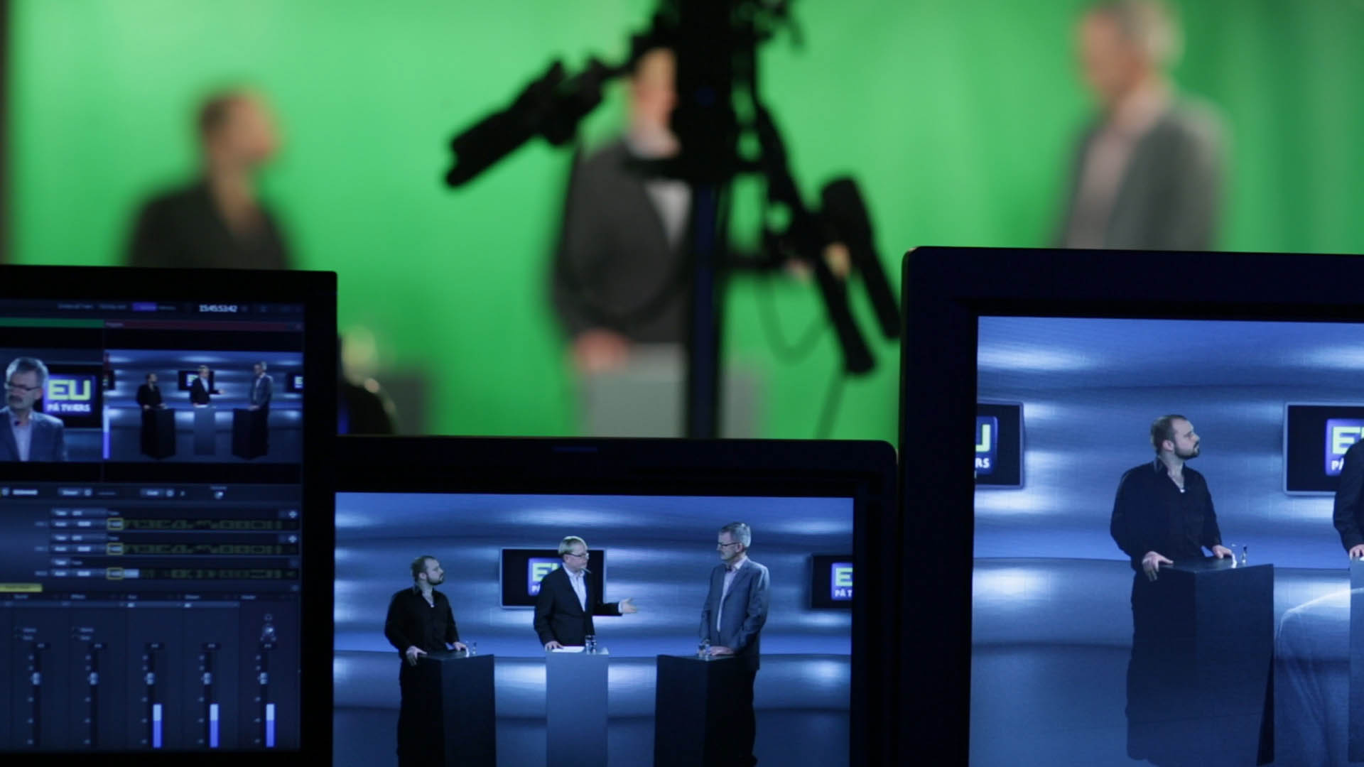 Green screen live streaming production at Mediehuset København